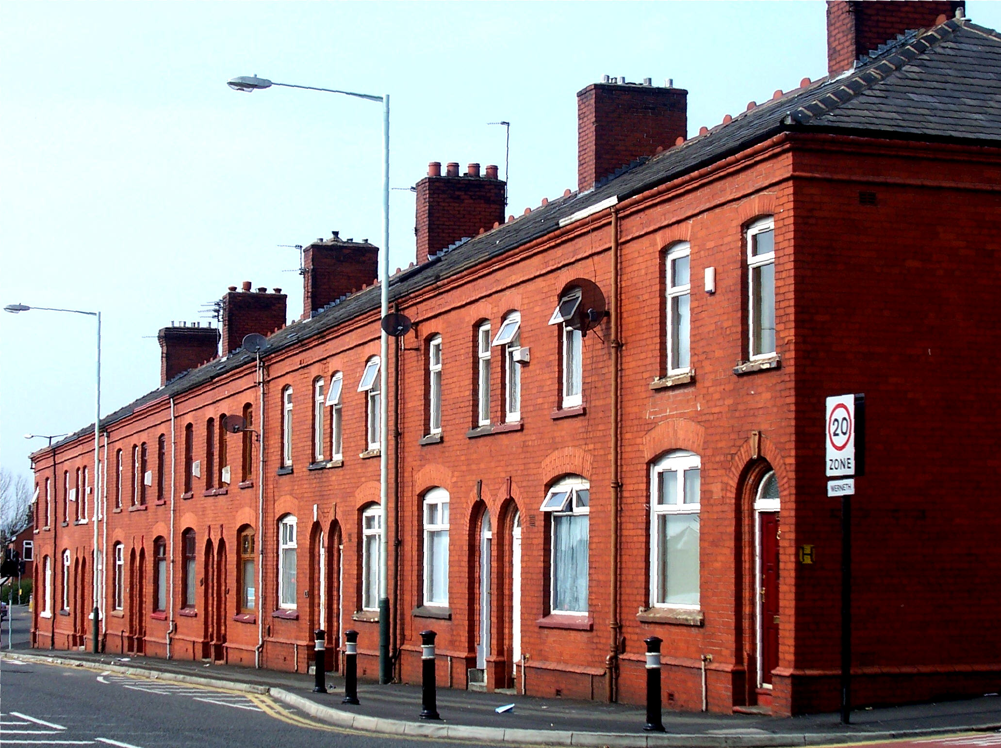 Fredrick Street, in the Werneth area of Oldham, Greater Manchester, England. This fine Accrington brick terrace was originally the tied homes of the firemen operating from the long since demolished fire and police station at the end of the row - all that is, except the furthest one, which was the police sergeant's house with a side door into the police station. There is a similar terrace running at rightangles up the hill. the space behind the terraces was the practice yard.